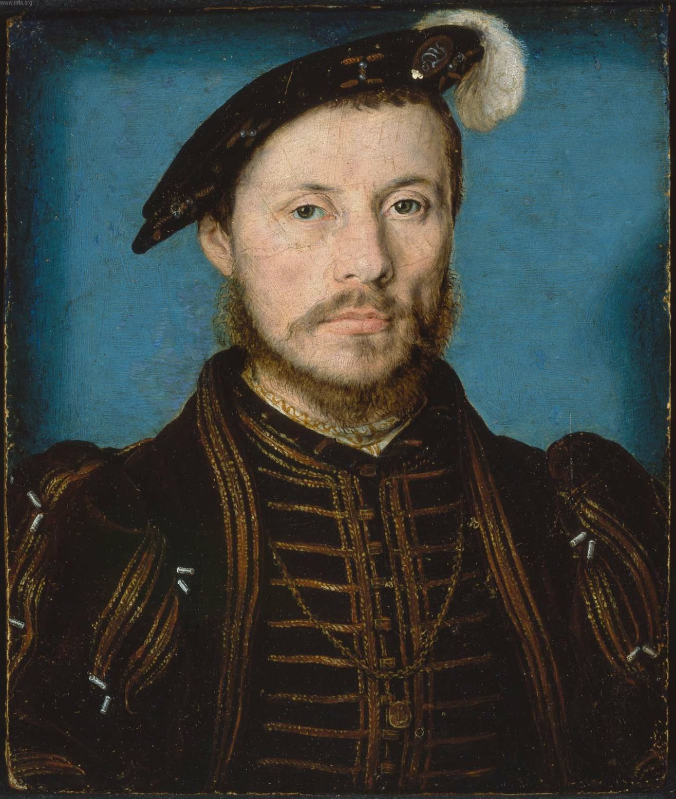 Portrait of Anne de Montmorency, oil on wood panel, 6x5 inches, 1533 ou 1536 ? - Museum of fine art of Boston, Inv. 24.264